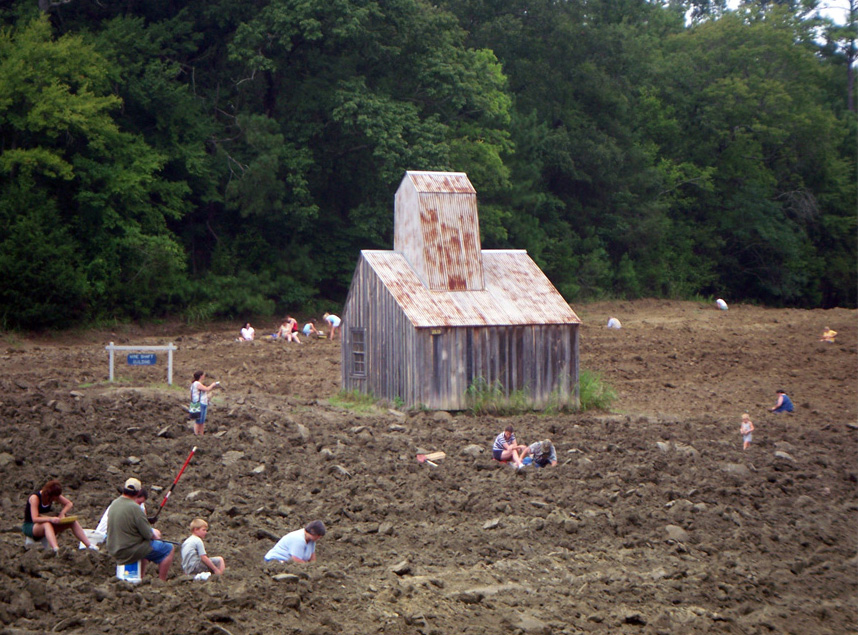 Prospectors at Crater Of Diamonds State Park in Murfreesboro, AR seek their fortune.